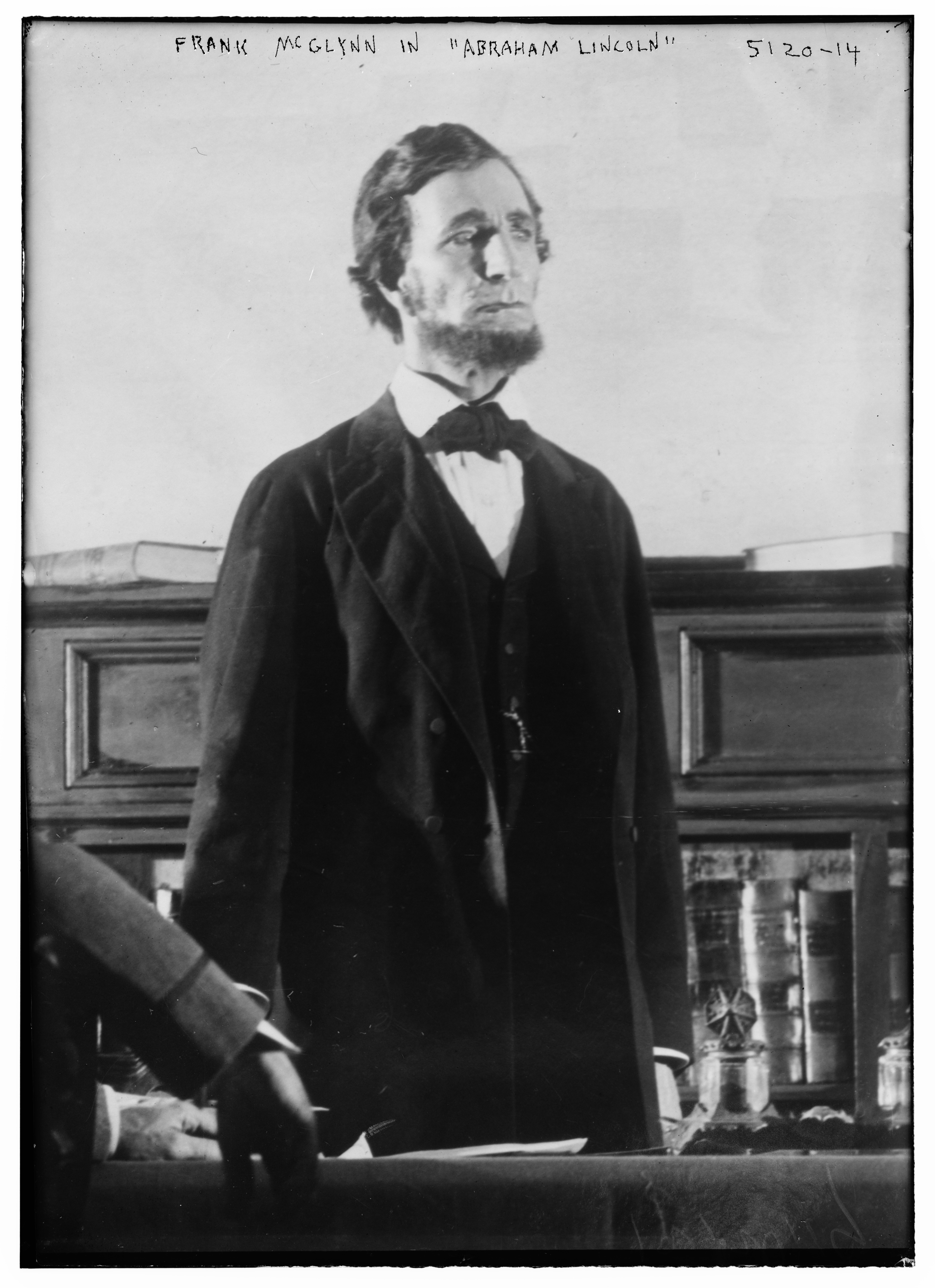 Frank McGlynn Sr. as Abraham Lincoln